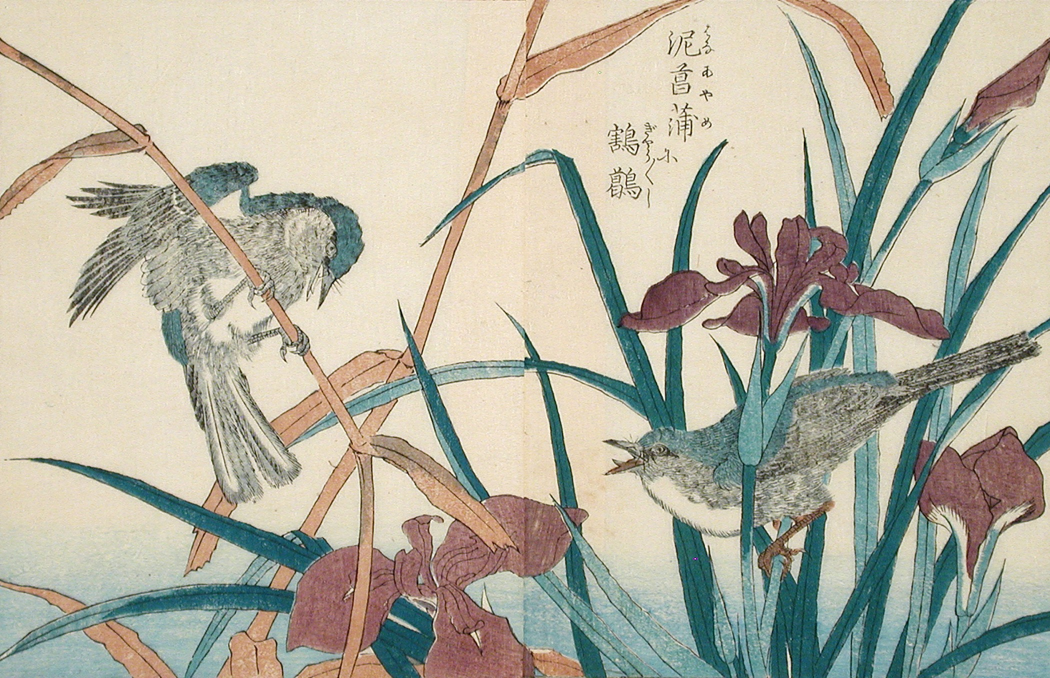 Japan, 18th-19th century Prints; woodcuts Color woodblock prints; two pages from a book Image: 7 1/16 x 10 13/16 in. (17.9 x 27.4 cm); Sheet: 8 5/8 x 11 1/16 in. (21.9 x 28.0 cm) Gift in memory of Mary Thayer Gruys (AC1992.109.8.1-.2) Japanese Art